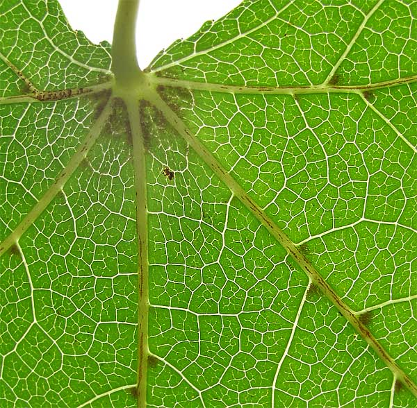 A sweetgum (Liquidambar styraciflua) leaf. Its domatia can be clearly seen in the axils of major veins.